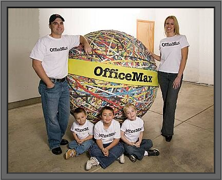 An photo of Steve Milton and his rubber band ball